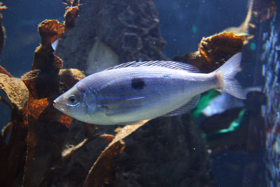 Spicara maena